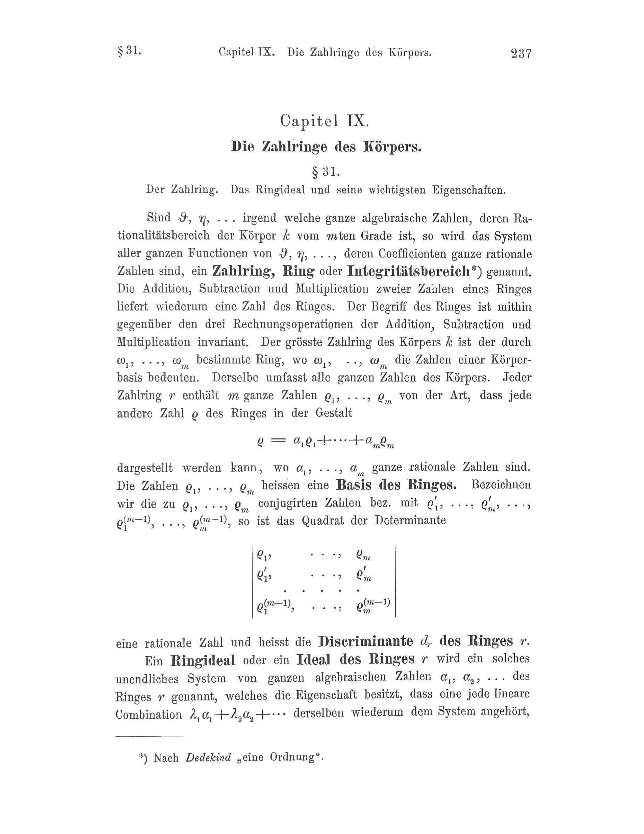 The first page of Chapter IX. in Die Theorie der algebraischen Zahlkörper